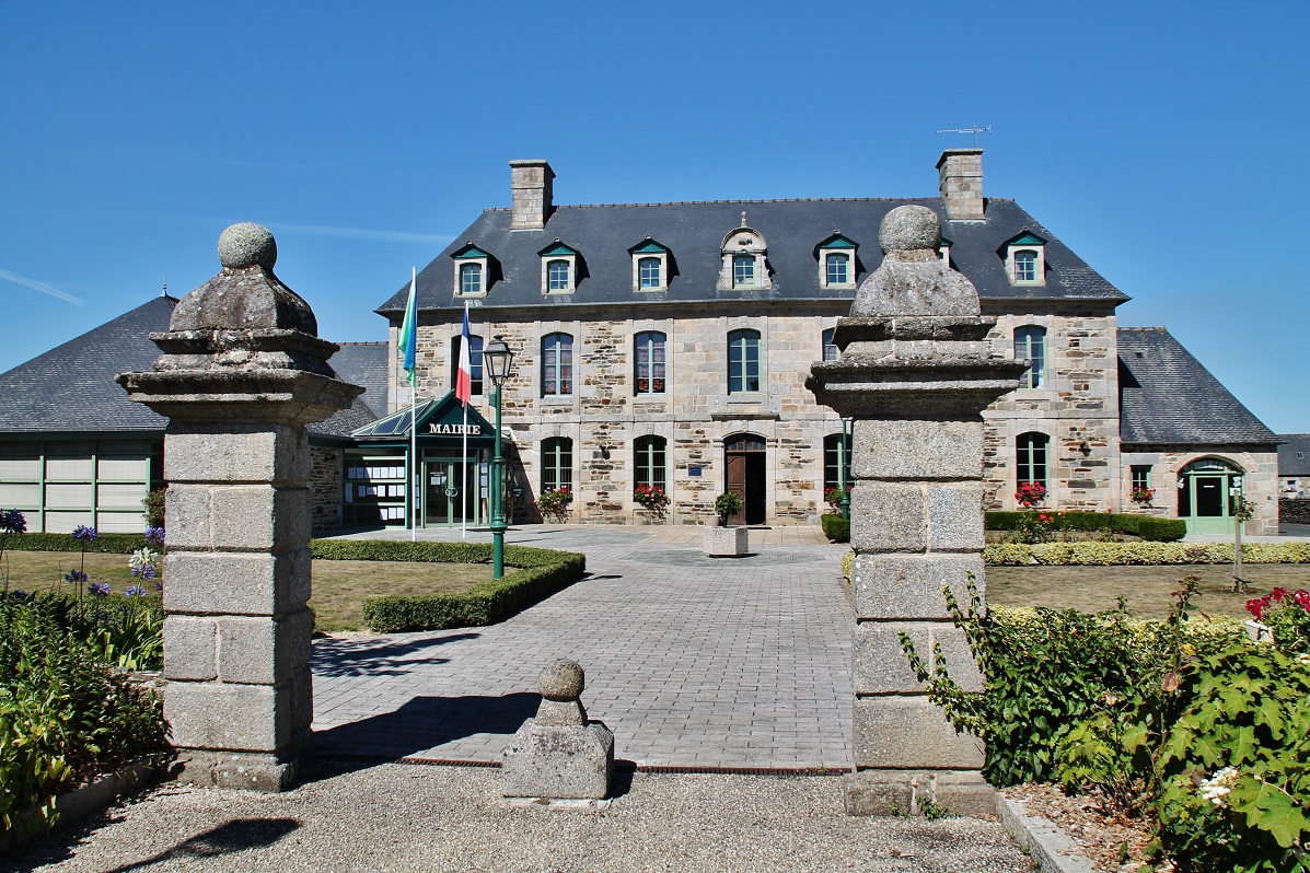 La Mairie